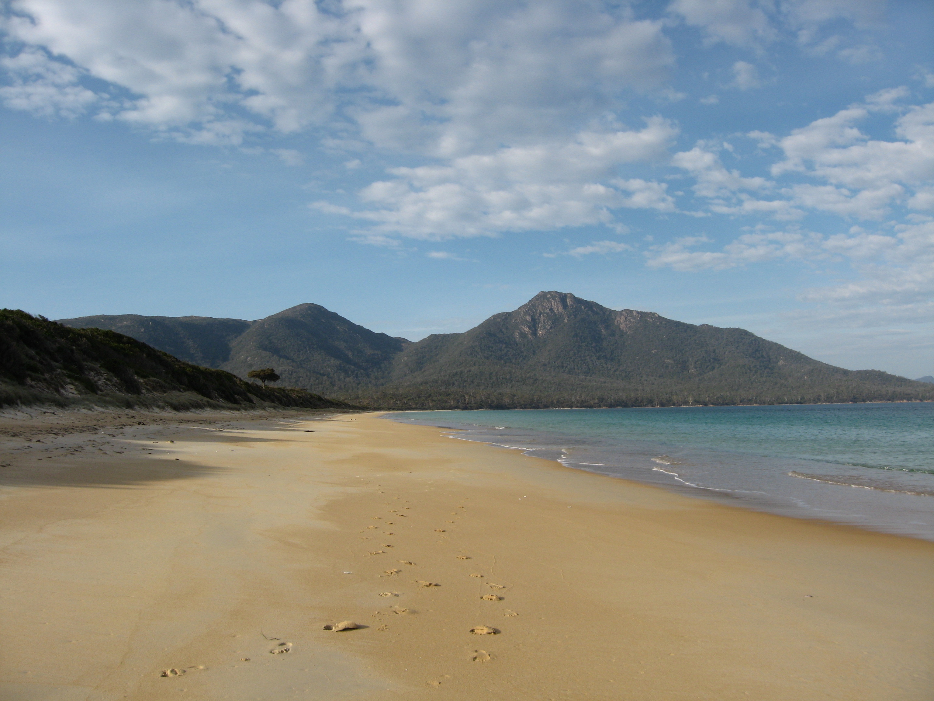 Photograph of Hazards Beaach in Tasmania, Australia. On holiday.